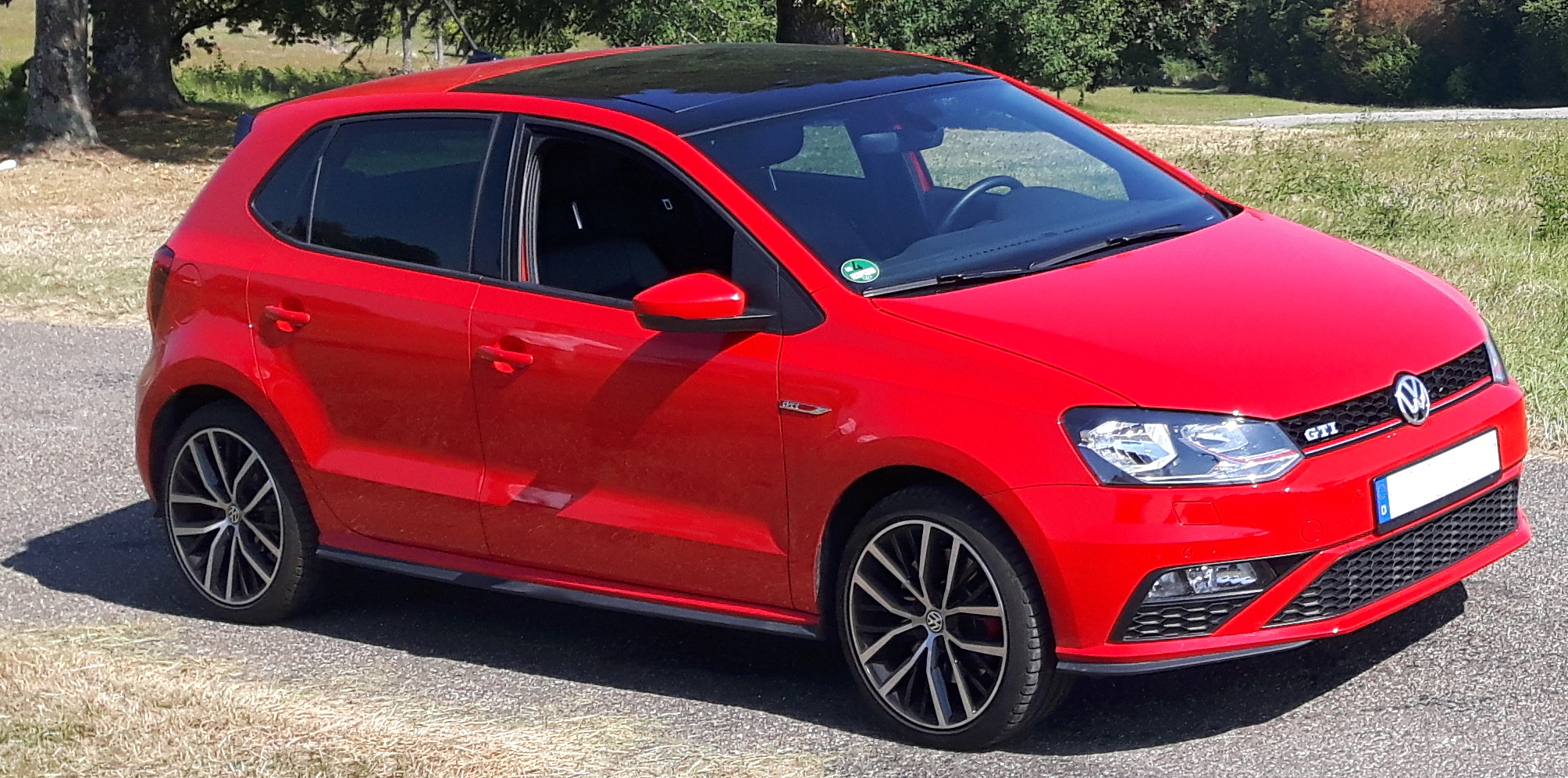 VW Polo GTi Bj 2016